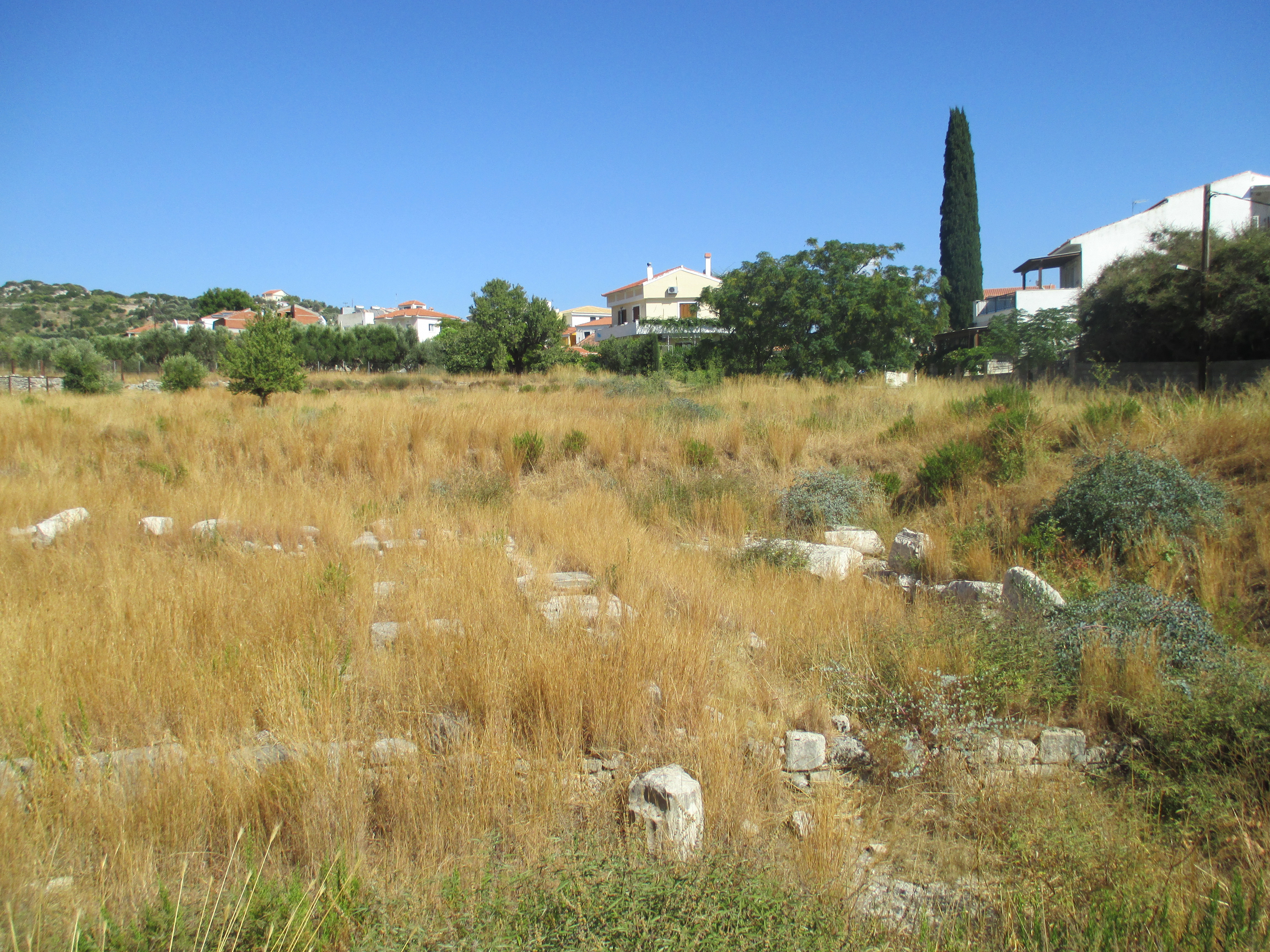 Ancient Agora of Pythagoreio (ancient polis of Samos), Greece.